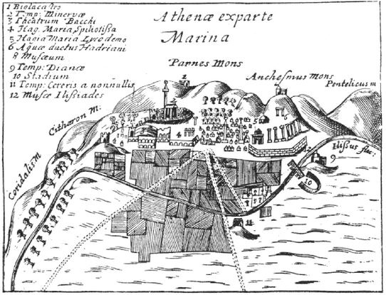 George Wheler, A Journey into Greece. 1682. View of Athens seen from seaside